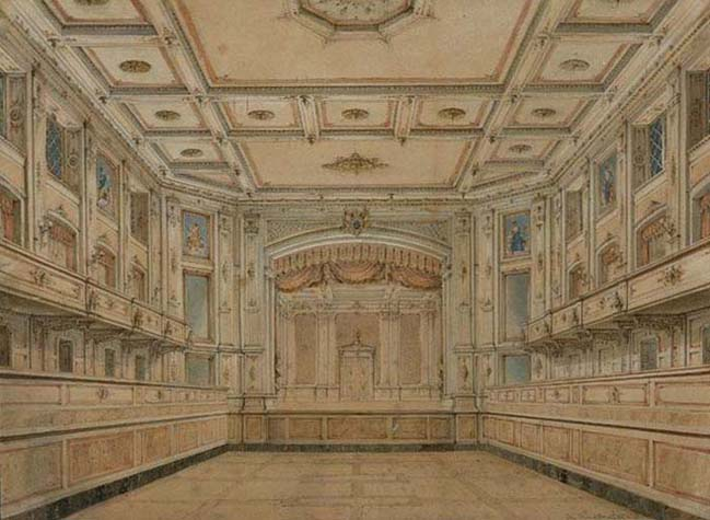 Drawing of the inside of Casino (former theater in Copenhagen) in 1847